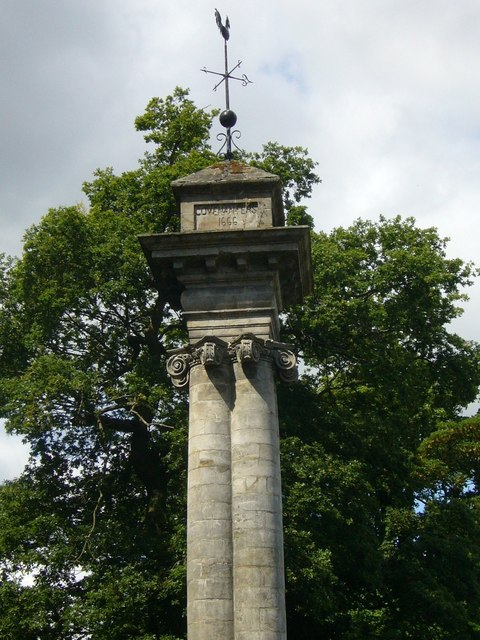 Covenanters Memorial, Dreghorn The stone column, commemorating the Battle of Rullion Green in 1666, stands directly outside the entrance to Dreghorn Barracks. It comprises four Ionic columns taken from the demolished Royal Infirmary in Infirmary Street.